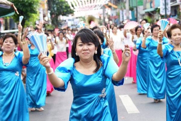 Participating teachers perform the Buling-Buling dance.